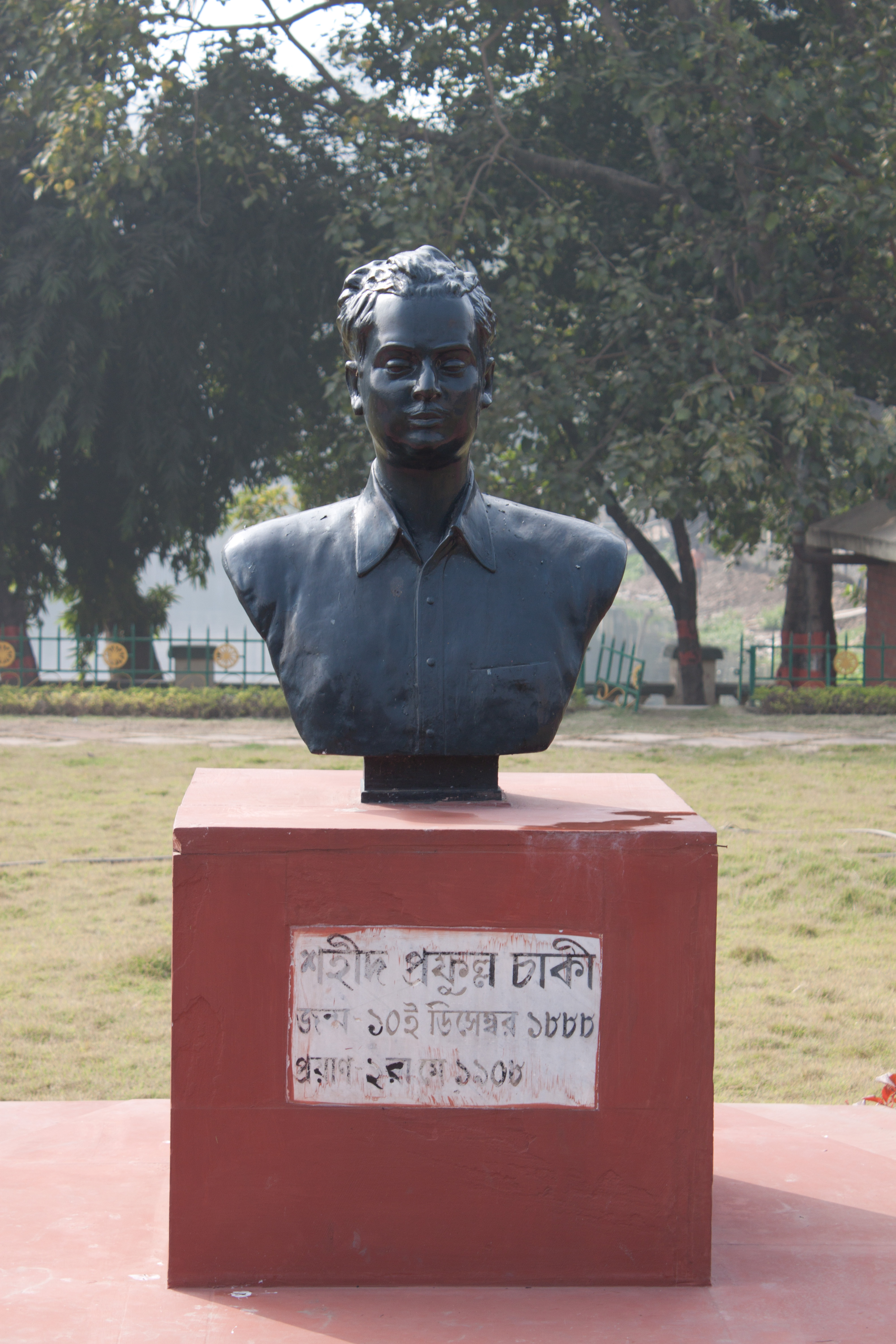 Bust of Prafulla Chaki in front of Writers' Building